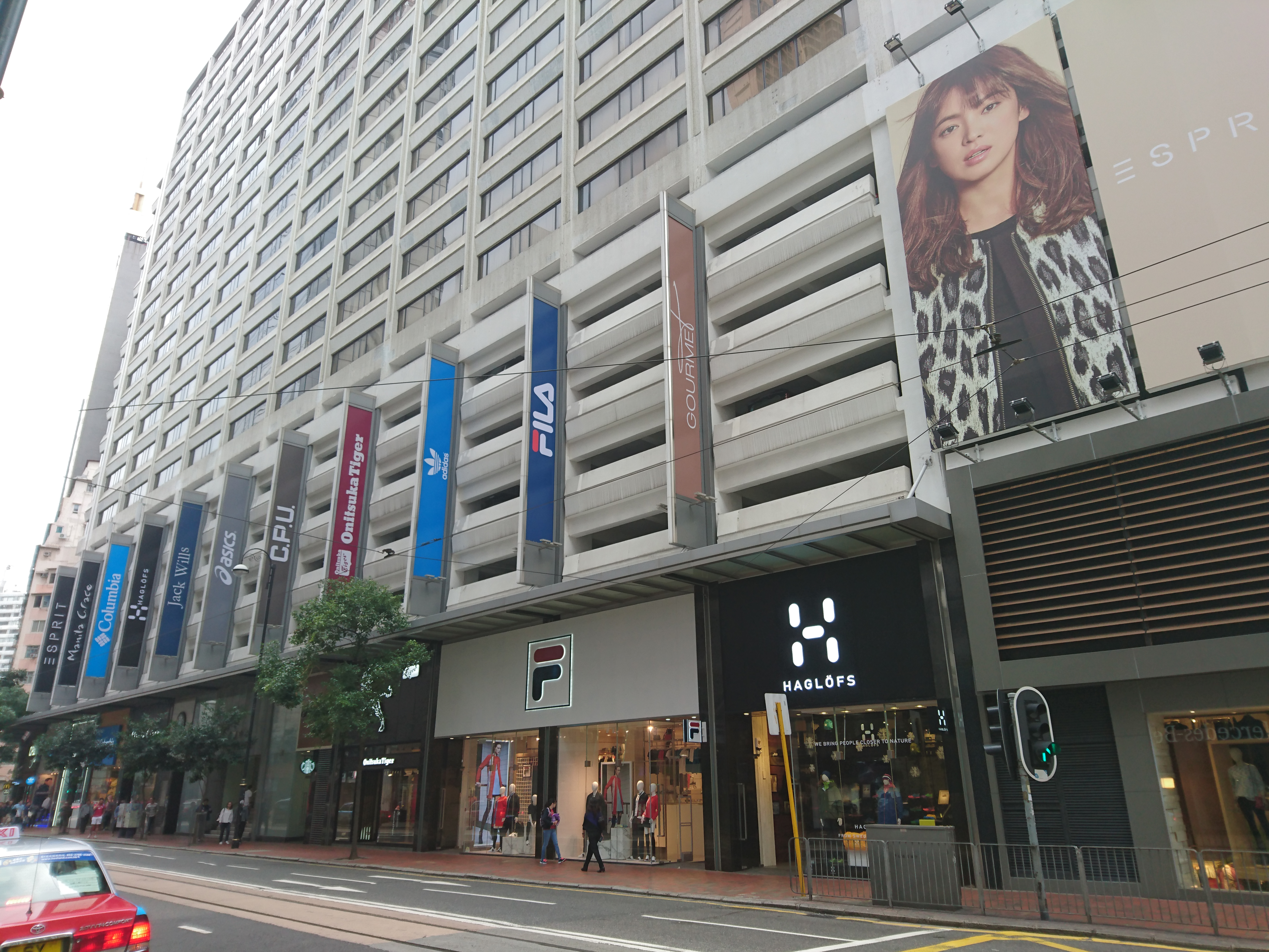 Leighton Centre on Leighton Road